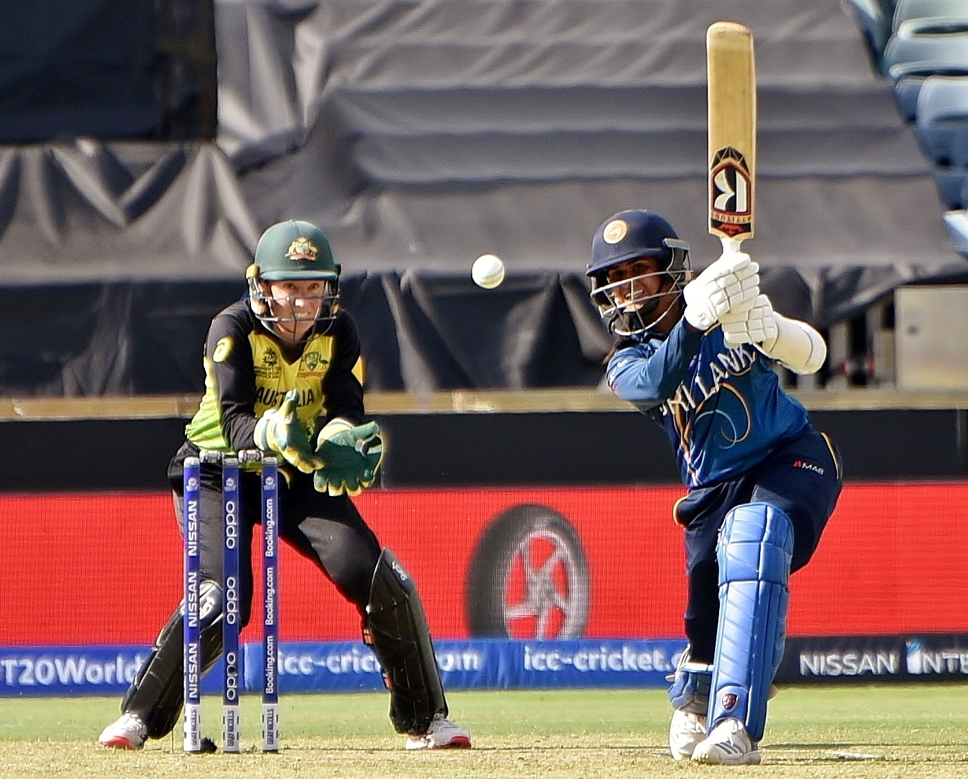 Shashikala Siriwardene batting for Sri Lanka against Australia during their 2020 ICC Women's T20 World Cup match at the WACA Ground in Perth, Australia. The wicket-keeper is Alyssa Healy.